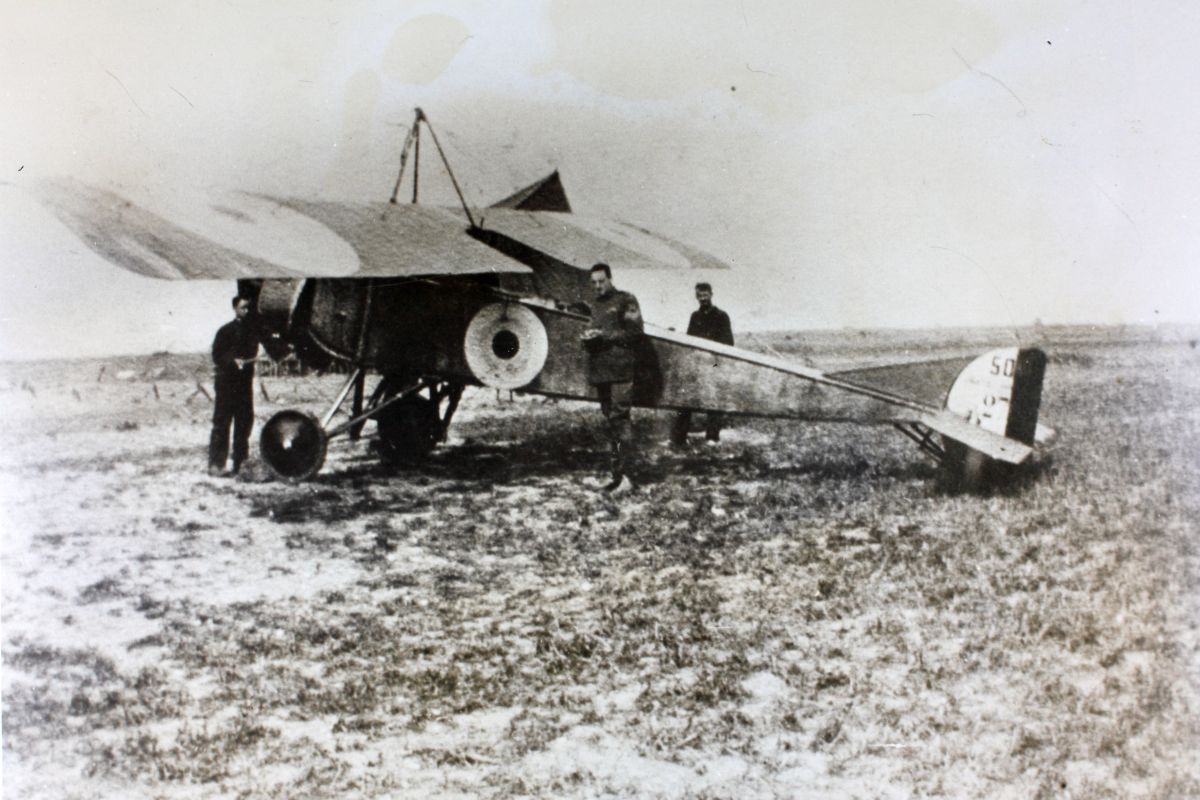 Morane-Saulnier L in RFC markings